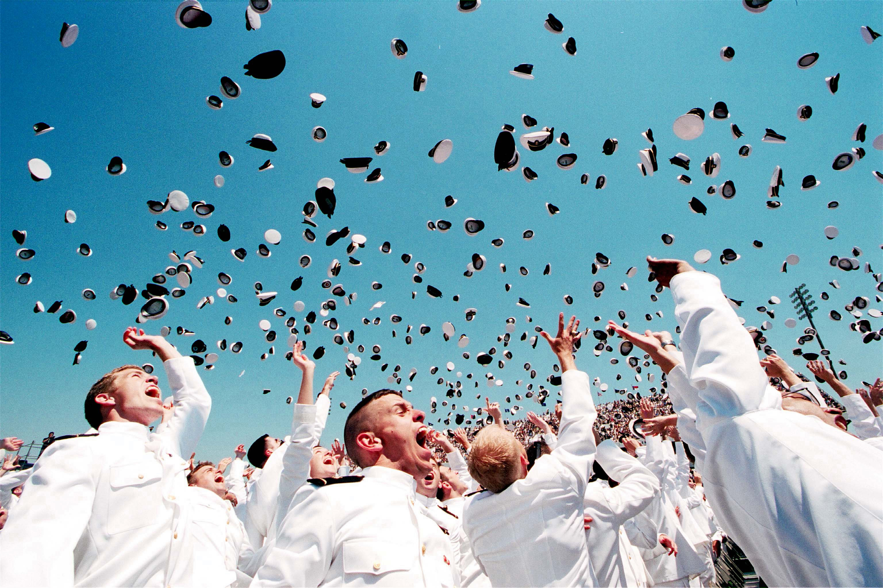 Annapolis, MD (May 24, 2002) -- Following graduation from the U.S. Naval Academy, the throw of hats into the air signifies the transformation from Midshipmen to Navy Ensigns or Marine Corps 2nd Lieutenants. U.S. Navy photo by Shannon Bosserman. (RELEASED)